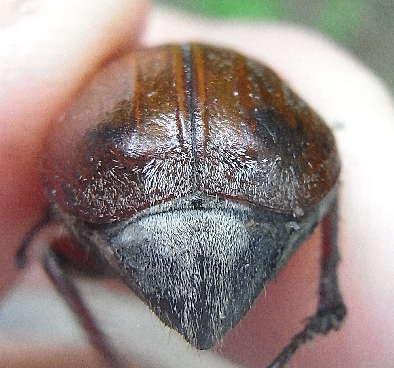 Melolontha pectoralis from Hungary, at 2010-06-12 in Zemplen-mountainsRicoh R8